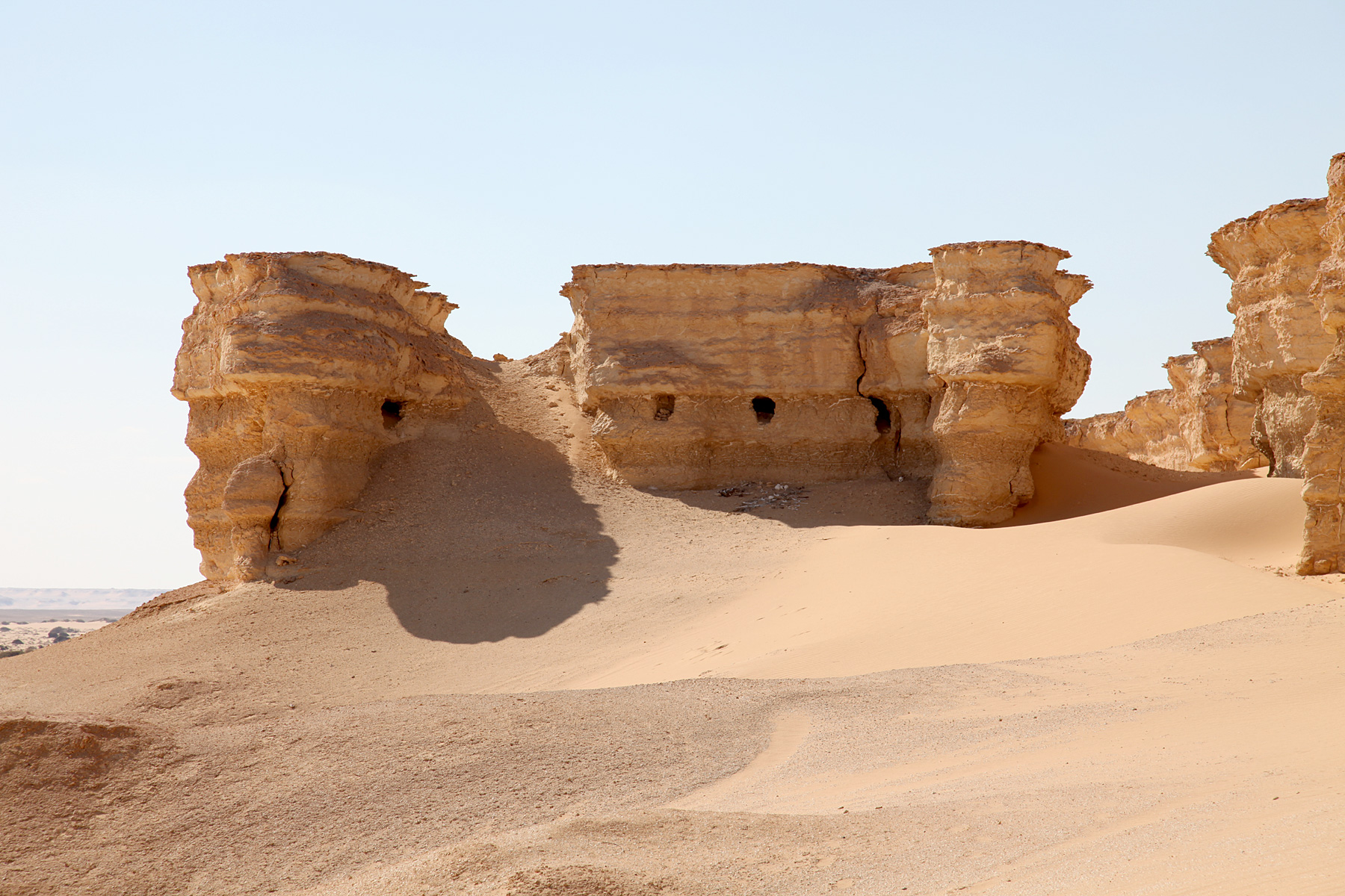 Rock tombs at Nuweimisa, Darb Siwa, Egypt